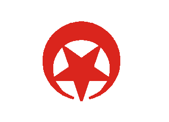 VII Corps, Dept of Arkansas, 1st Division Badge